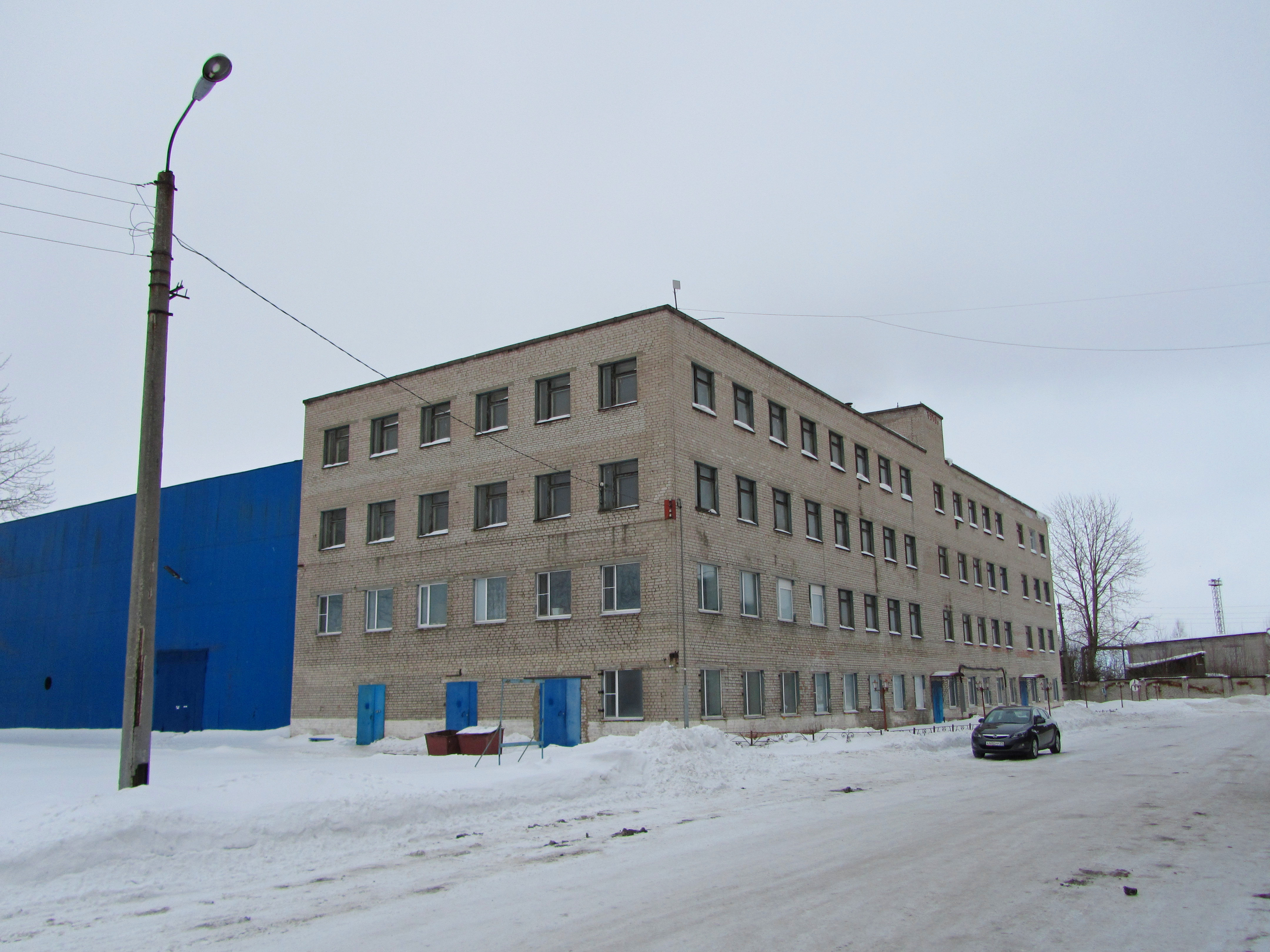 Teplichnyj Passage, Severodvinsk